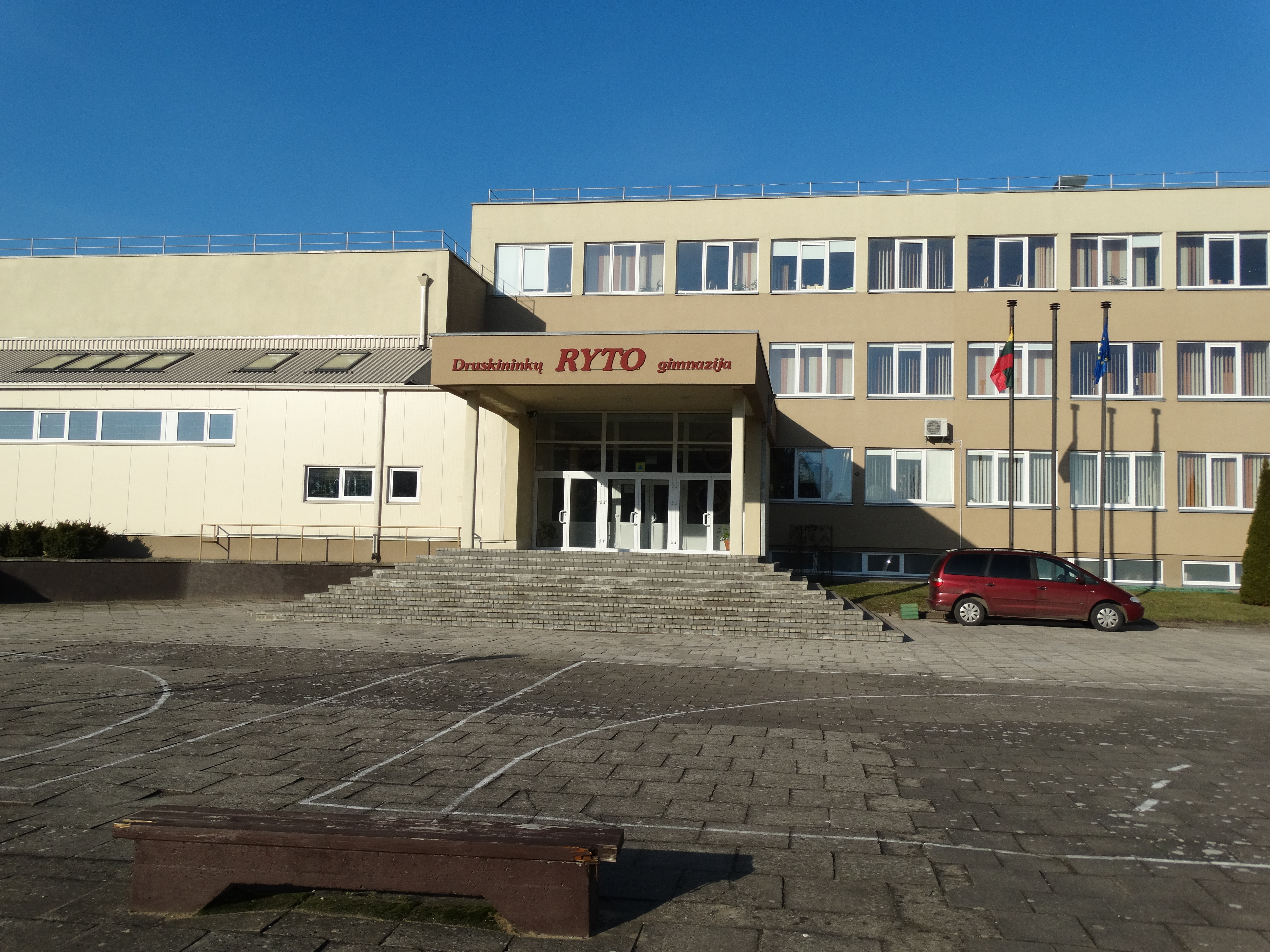 Rytas Gymnasium, Druskininkai, Lithuania